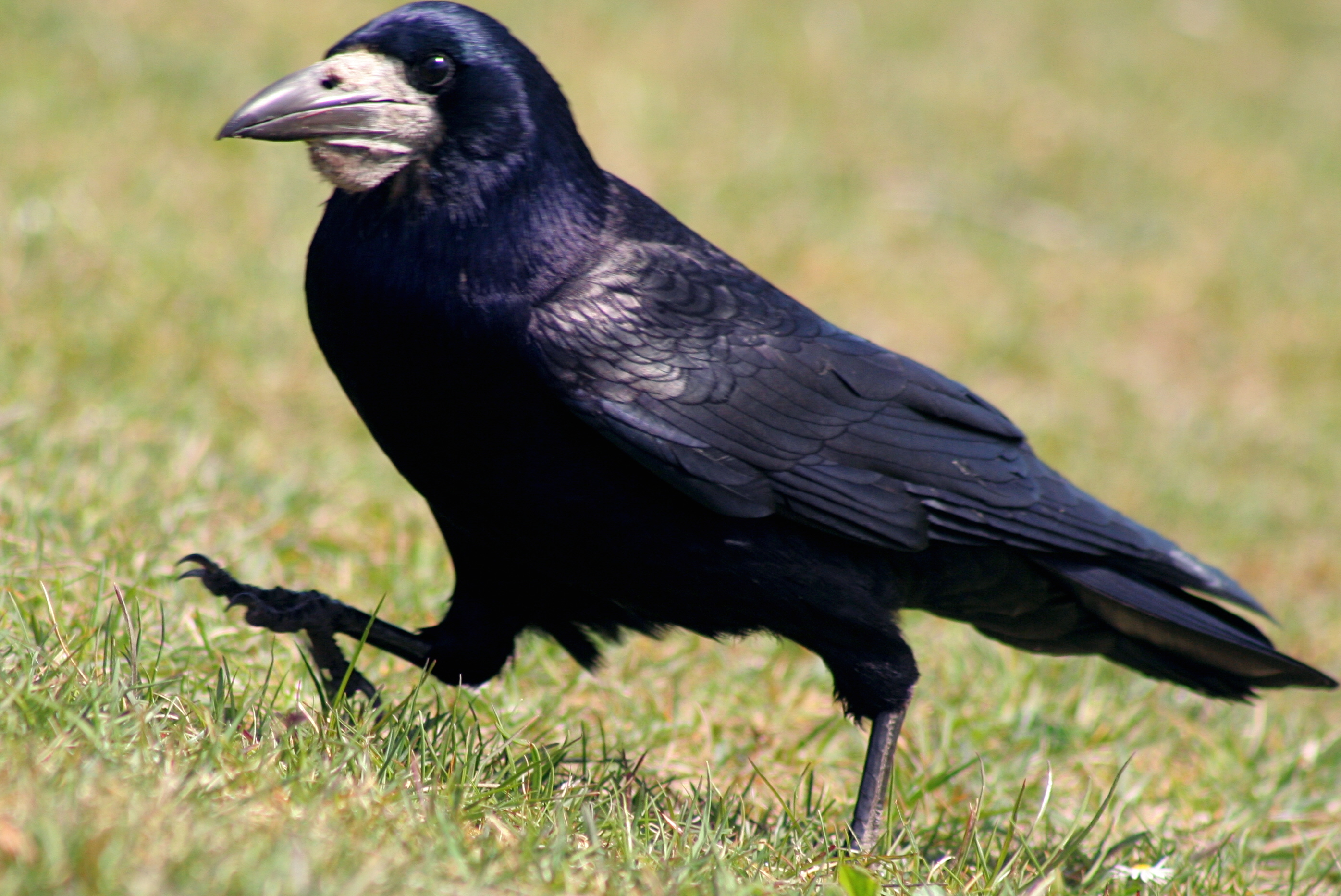 A Rook walking on short grass in Scotland.